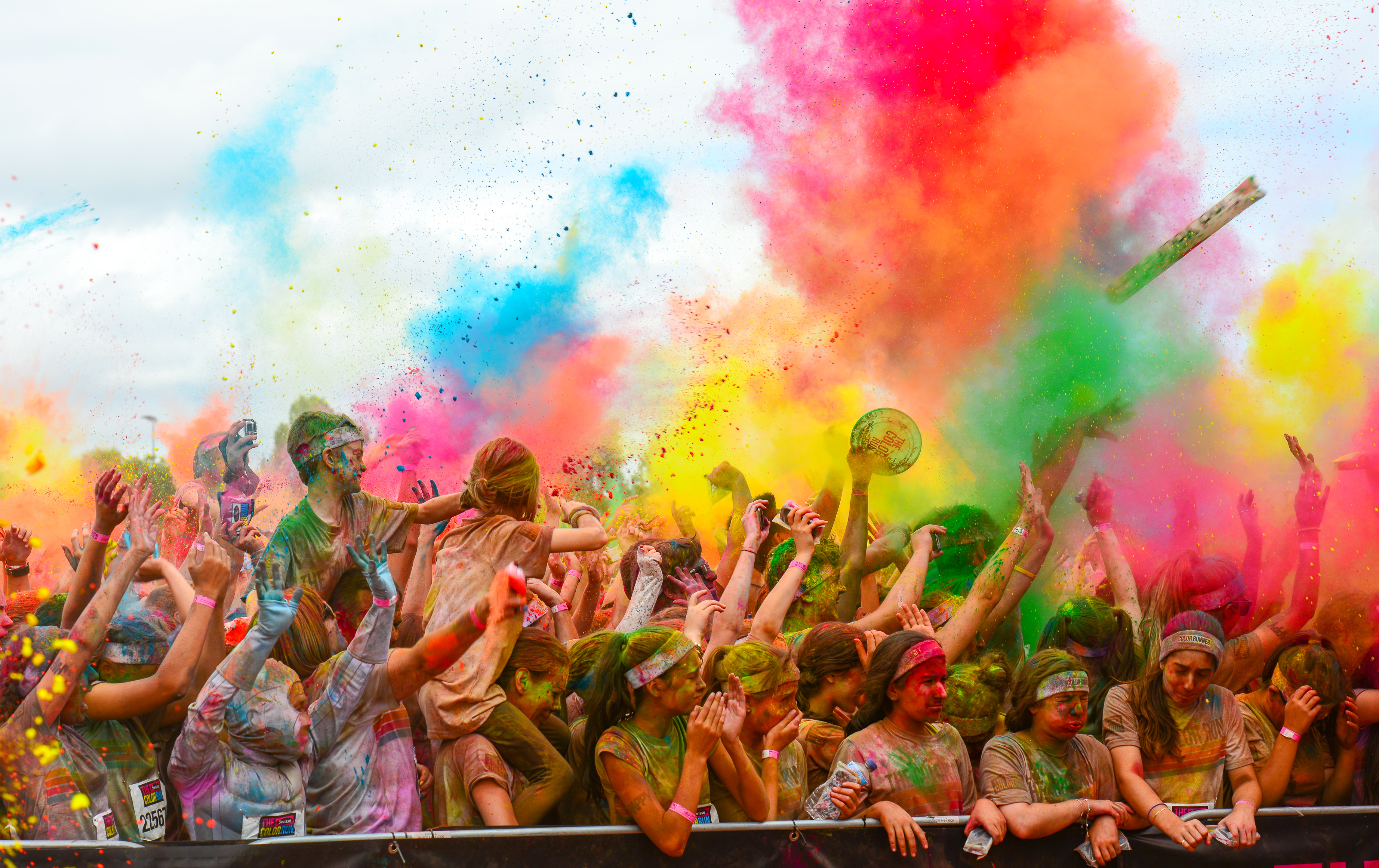 After I took the photo, I walked away very quickly behind the stage as the breeze was blowing a huge powder cloud towards this direction. The powder that people are throwing is just very fine corn starch dyed with food colouring, you can sometimes taste it in the air.